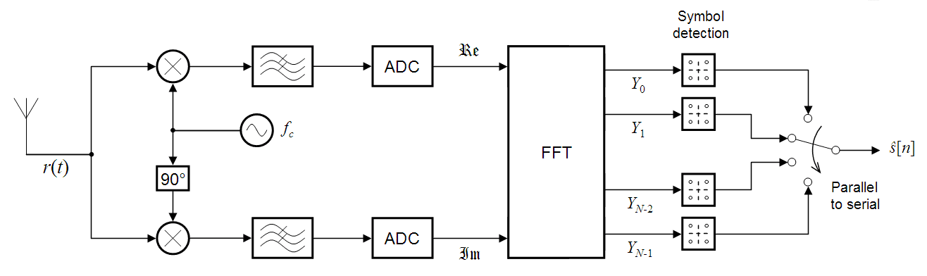 Created by Oli Filth using Microsoft PowerPoint and Adobe ImageReady.